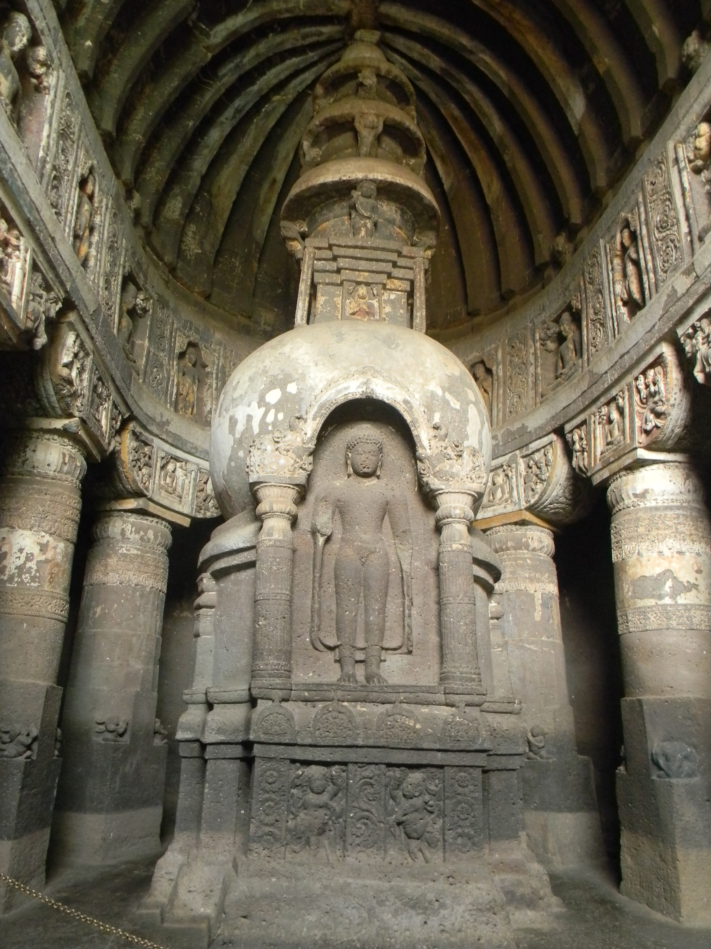 Ajanta Caves